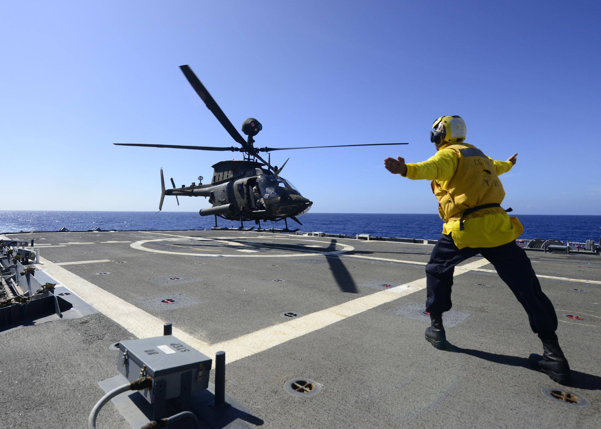 A U.S. Navy sailor aboard the guided-missile cruiser USS Lake Erie (CG-70) directs a U.S. Army Bell OH-58D Kiowa Warrior helicopter from the 25th Combat Aviation Brigade (25th CAB) off the coast of Hawaii during joint training operations.